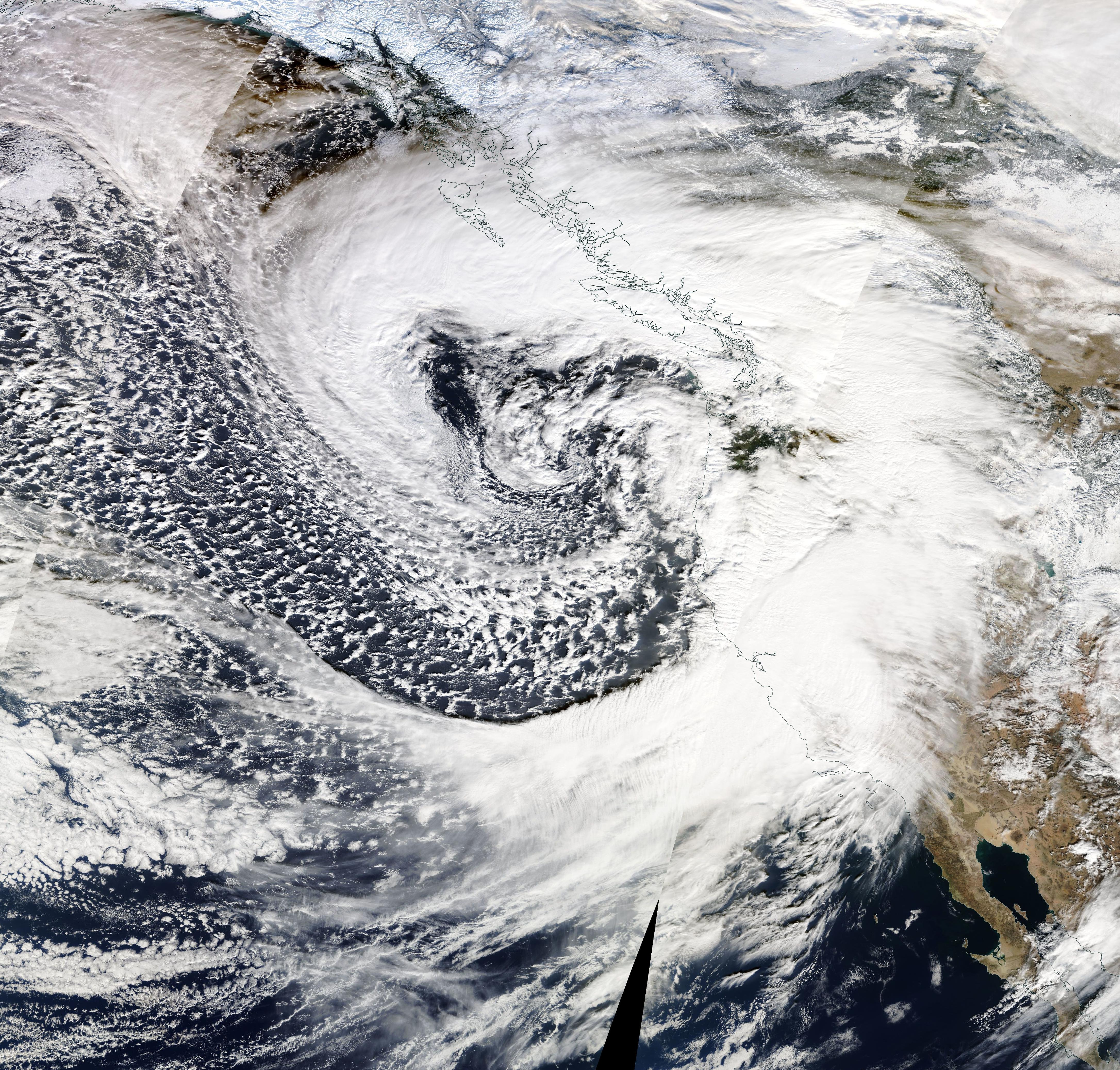 Satellite image of the January 2008 North American Superstorm at peak intensity, on the afternoon of January 4, 2008.